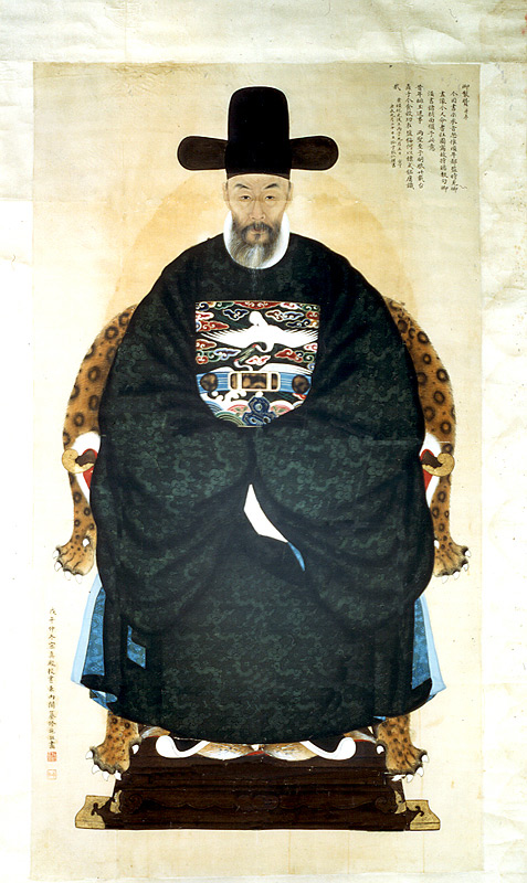 Portrait of Kim Jae-ro